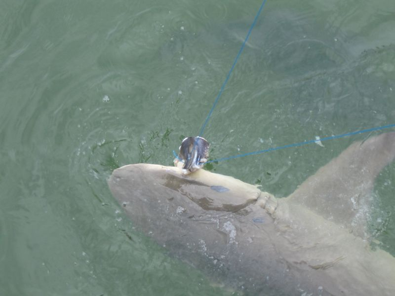 Sicklefin lemon shark (Negaprion acutidens) hooked in Shark Bay, Western Australia